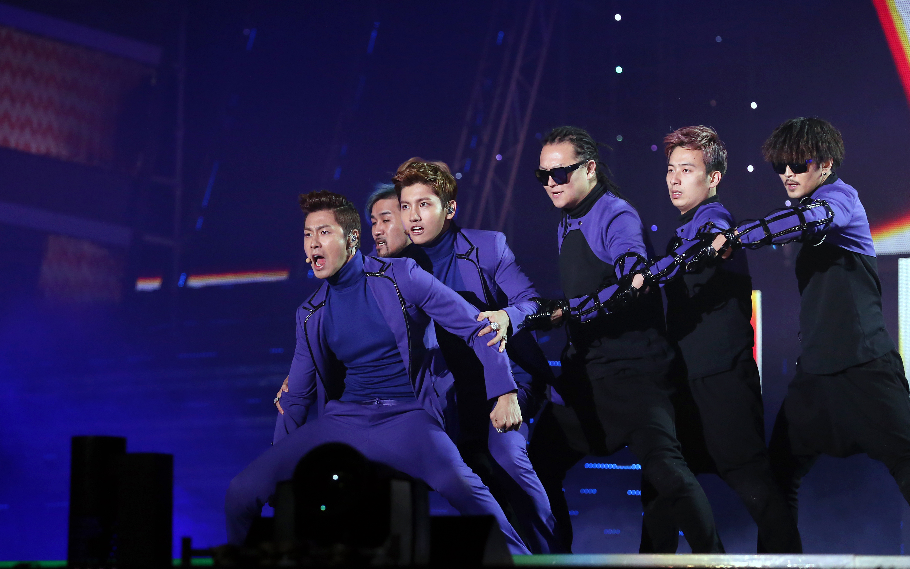 2012 K-POP World Festival Special Performance by TVXQ Changwon, Korea 2012.10.28. Ministry of Culture, Sports and Tourism Korean Culture and Information Service Jeon Han 2012 K-POP 월드 페스티벌 동방신기 東方神起 축하공연 경상남도 창원시 문화체육관광부 해외문화홍보원 코리아넷 전한